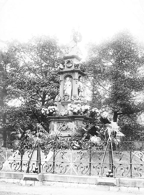 Fenian Monument, Queen's Park, Toronto Canada, ca. 1890, black and white print. Note that the monument itself was unveiled July 1, 1870. It commemorates the militia volunteers who died at the Battle of Limeridge on June 2, 1866.